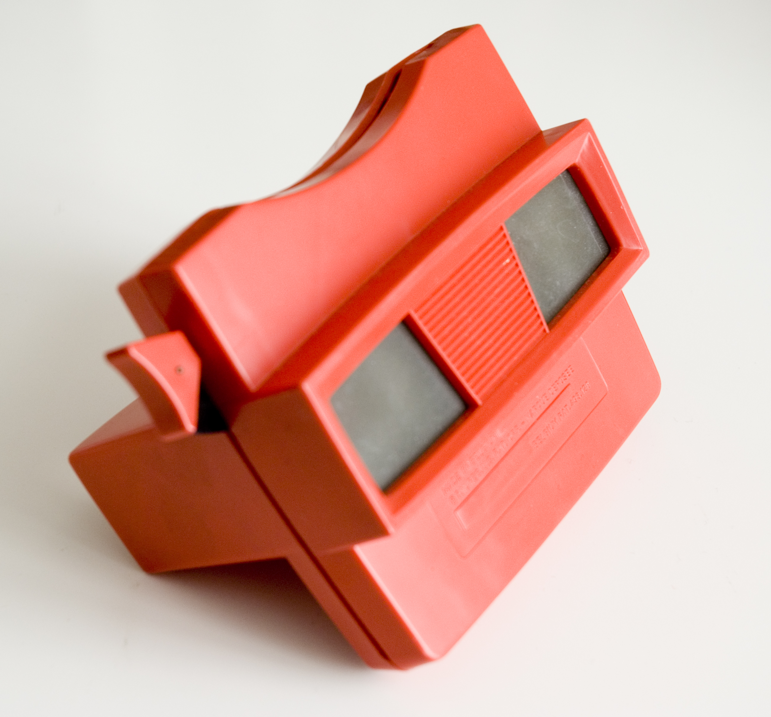 View-Master stereo viewer Model G red made by GAF